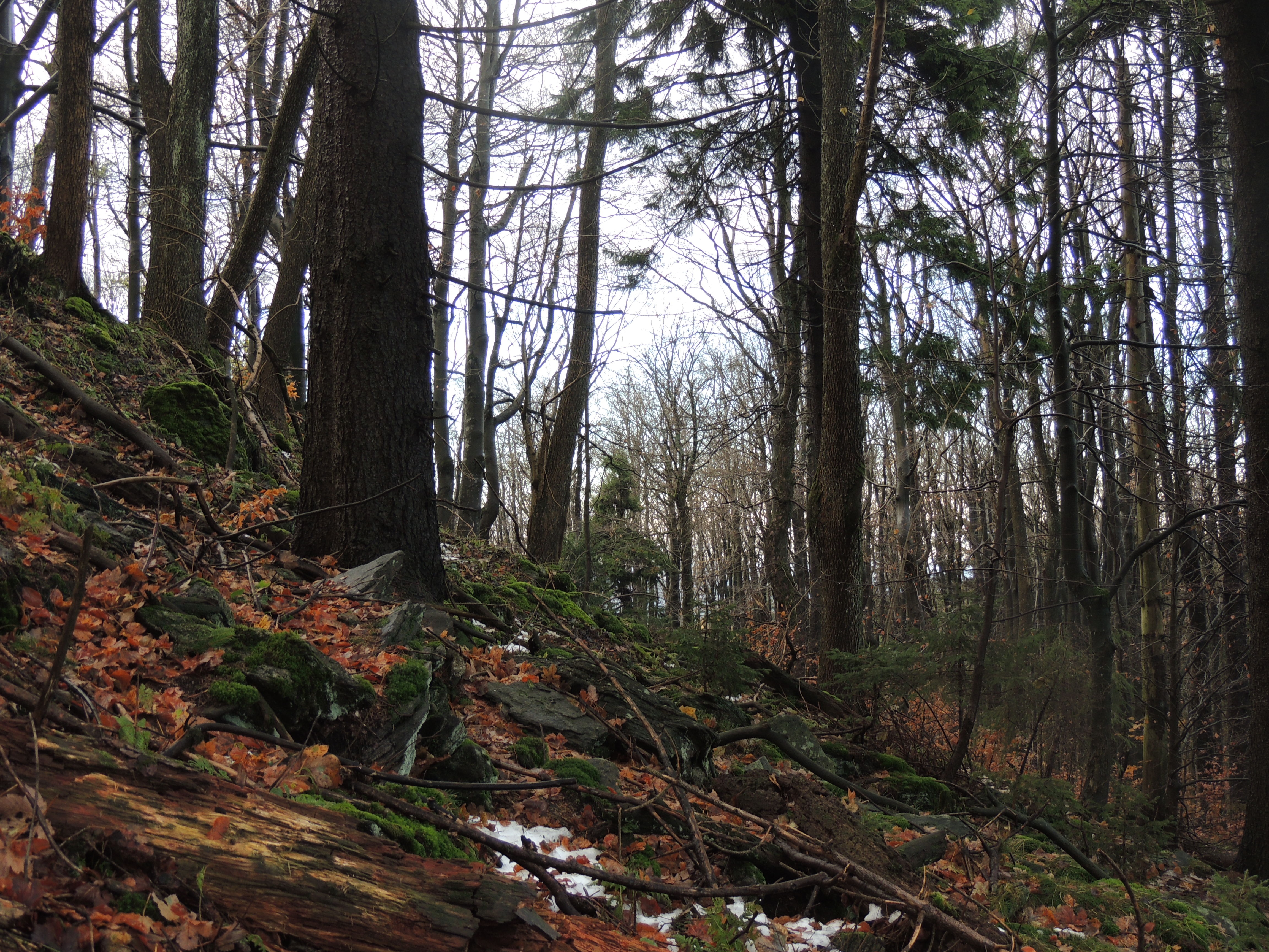 Smíšený les na balvanité suti v oblasti přírodní rezervace Starý Hirštejn v okrese Domažlice, Česko